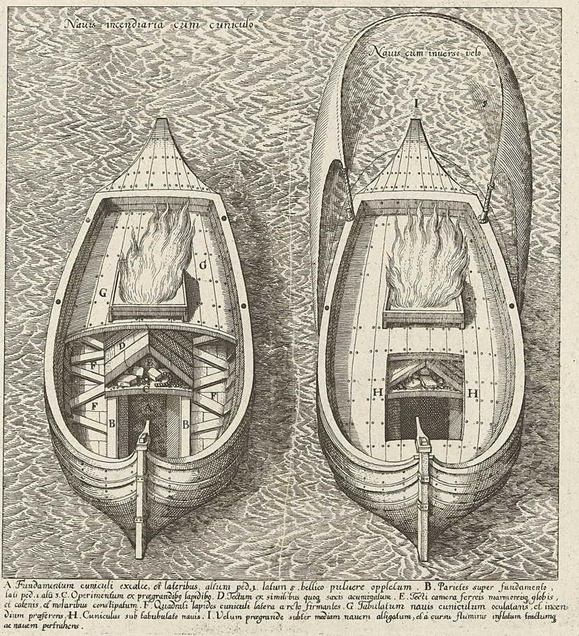 Fireships like they used to blow up a shipbridge before Antwerp 5 april 1585